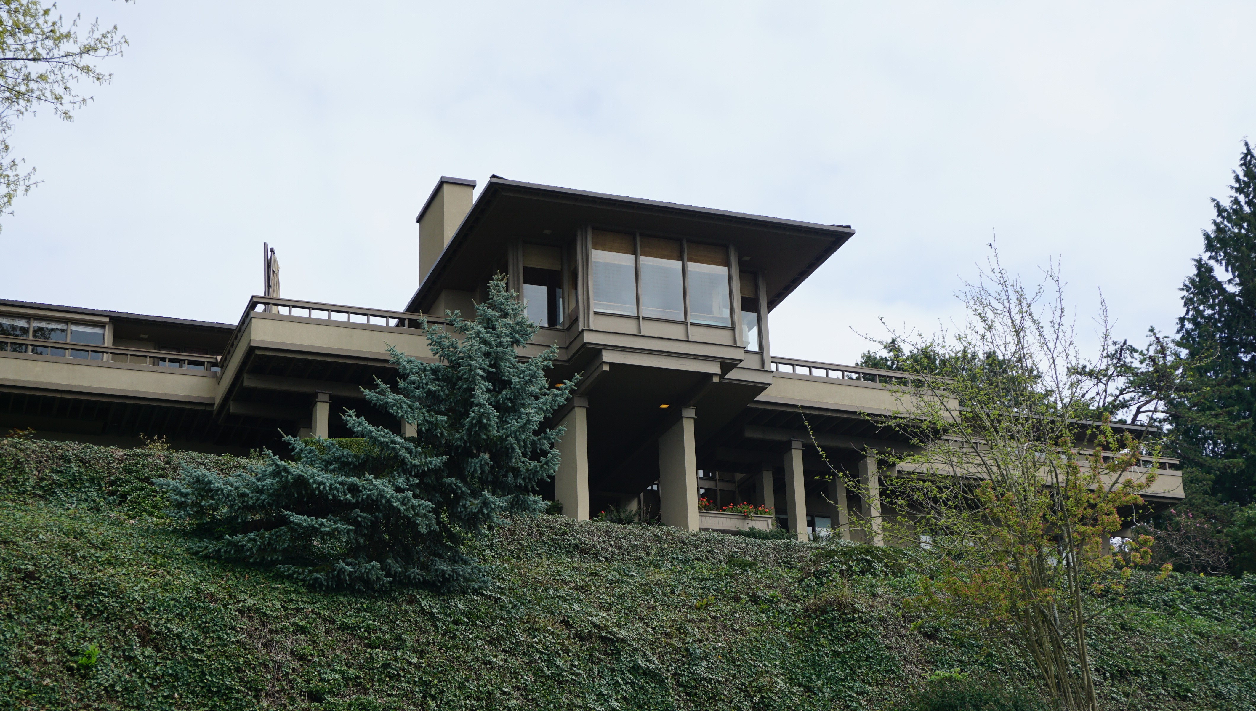 The Broback Residence, located on a hillside of Medina, Washington, was designed by Seattle architect Ralph Anderson.